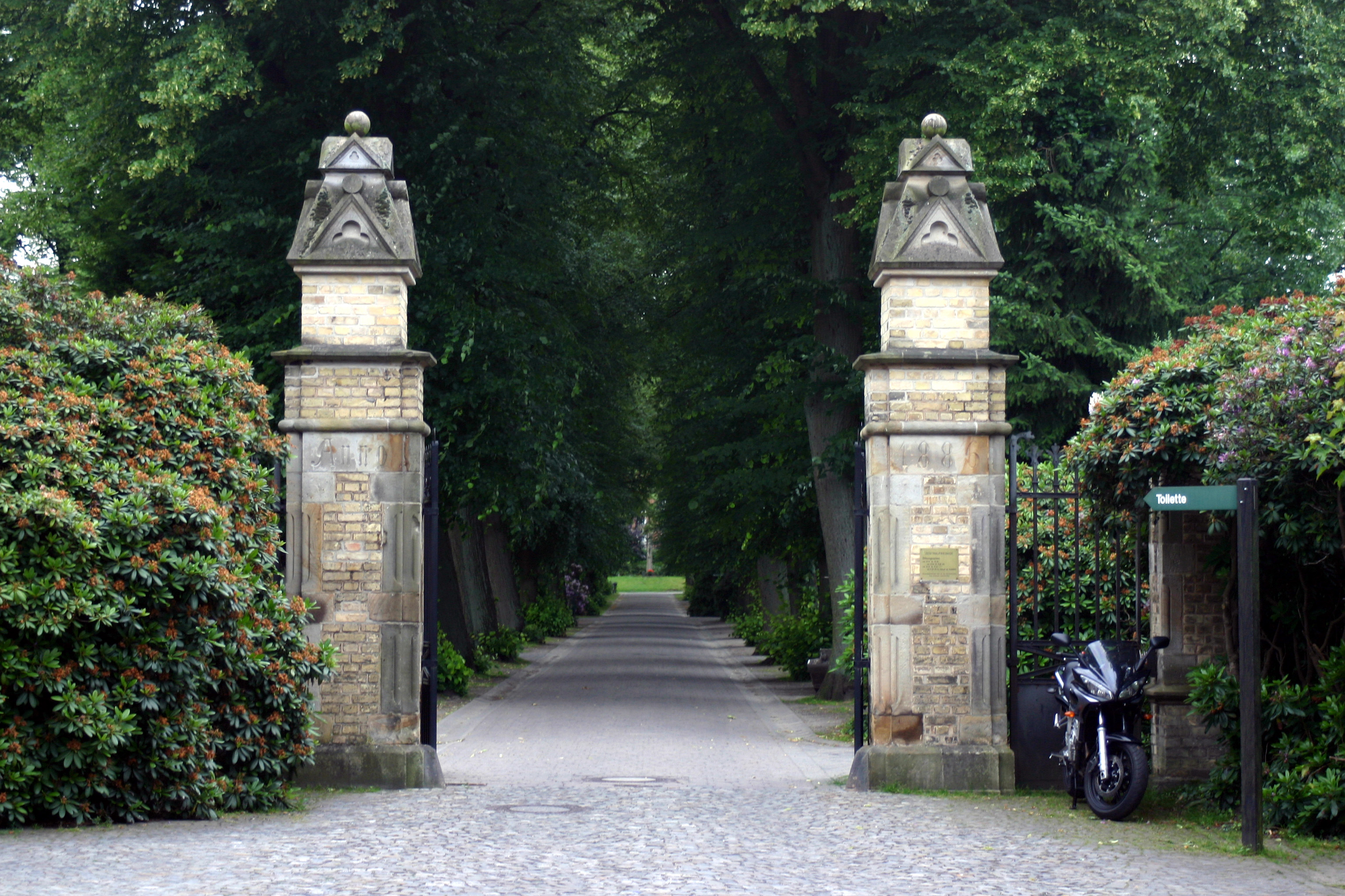 Main entrance, Zentralfriedhof (cemetery ) Münster